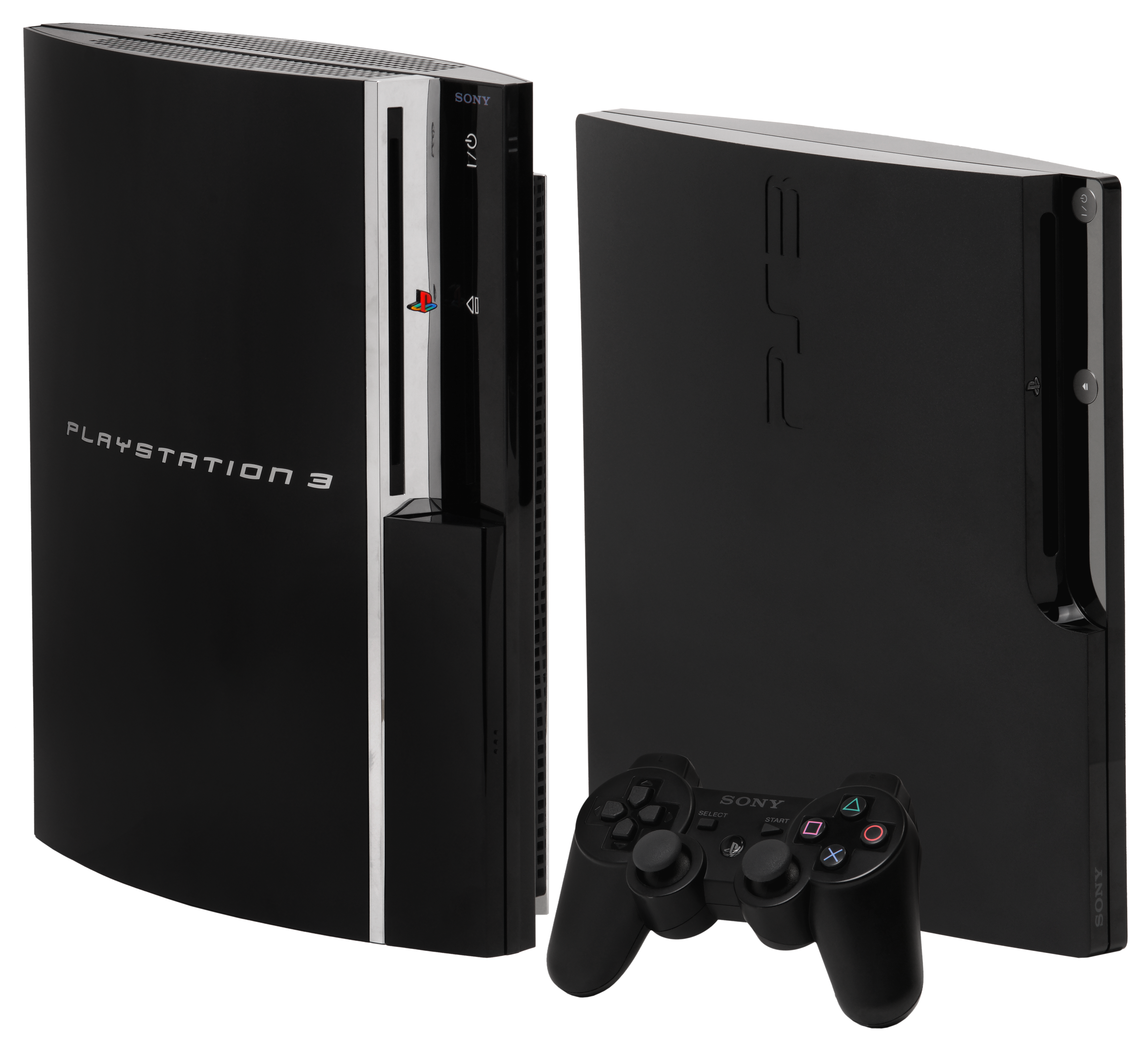 Left: An original "fat" PlayStation 3 (PS3) console. This is a North American 60 GB model with hardware PlayStation 2 backwards compatibility, memory card readers and a chrome trim. Right: A 120 GB PS3 "Slim" model shown with a DualShock 3 controller.